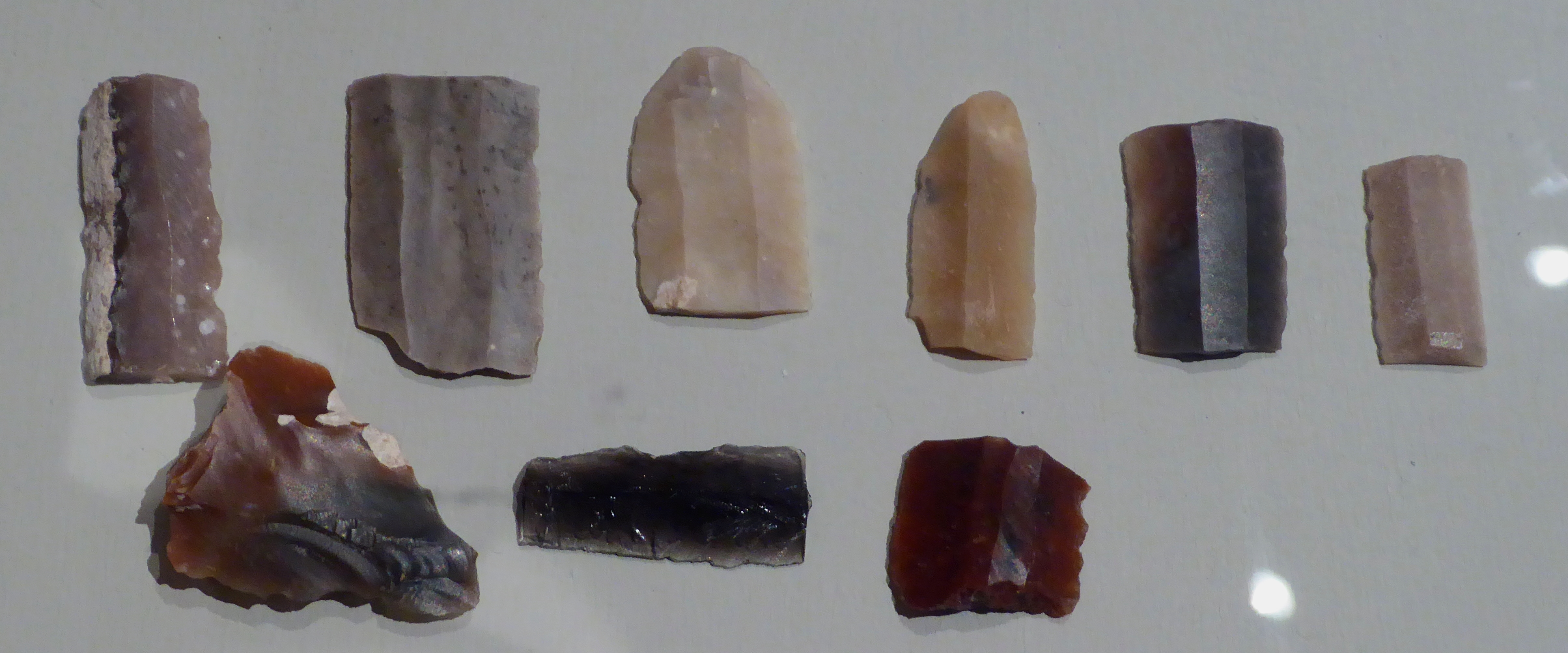 Stone tools (flint, chert, and obsidian) found at Skorba in Malta. Now on display at the National Museum of Archaeology, Valletta.